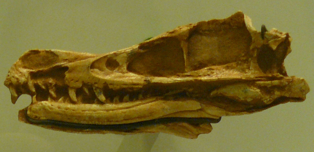 First Velociraptor skull ever found, American Museum of Natural History.